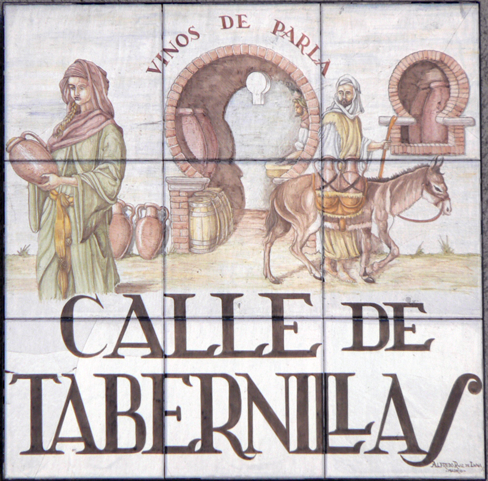 Sign of Calle de Tabernillas (street, Centro district) in Madrid (Spain).